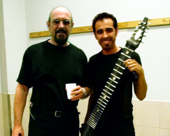 Guillermo Cides